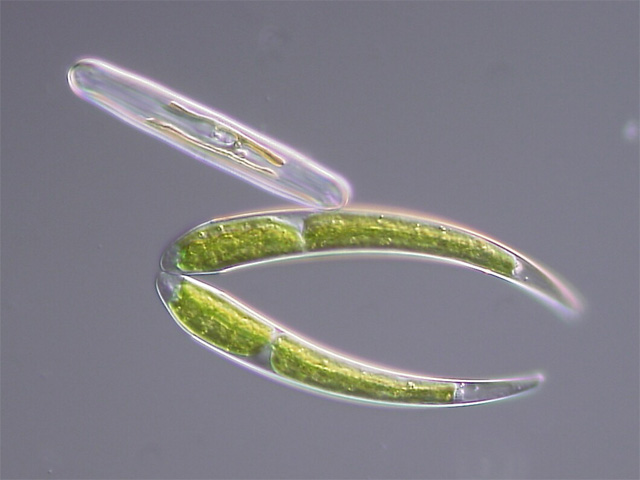 Closterium sp. (with unknown diatom), mitotic phase. / from Fukuroda Falls, Daigo, Ibaraki, Japan / Microscope:Leica DMRD (DIC)